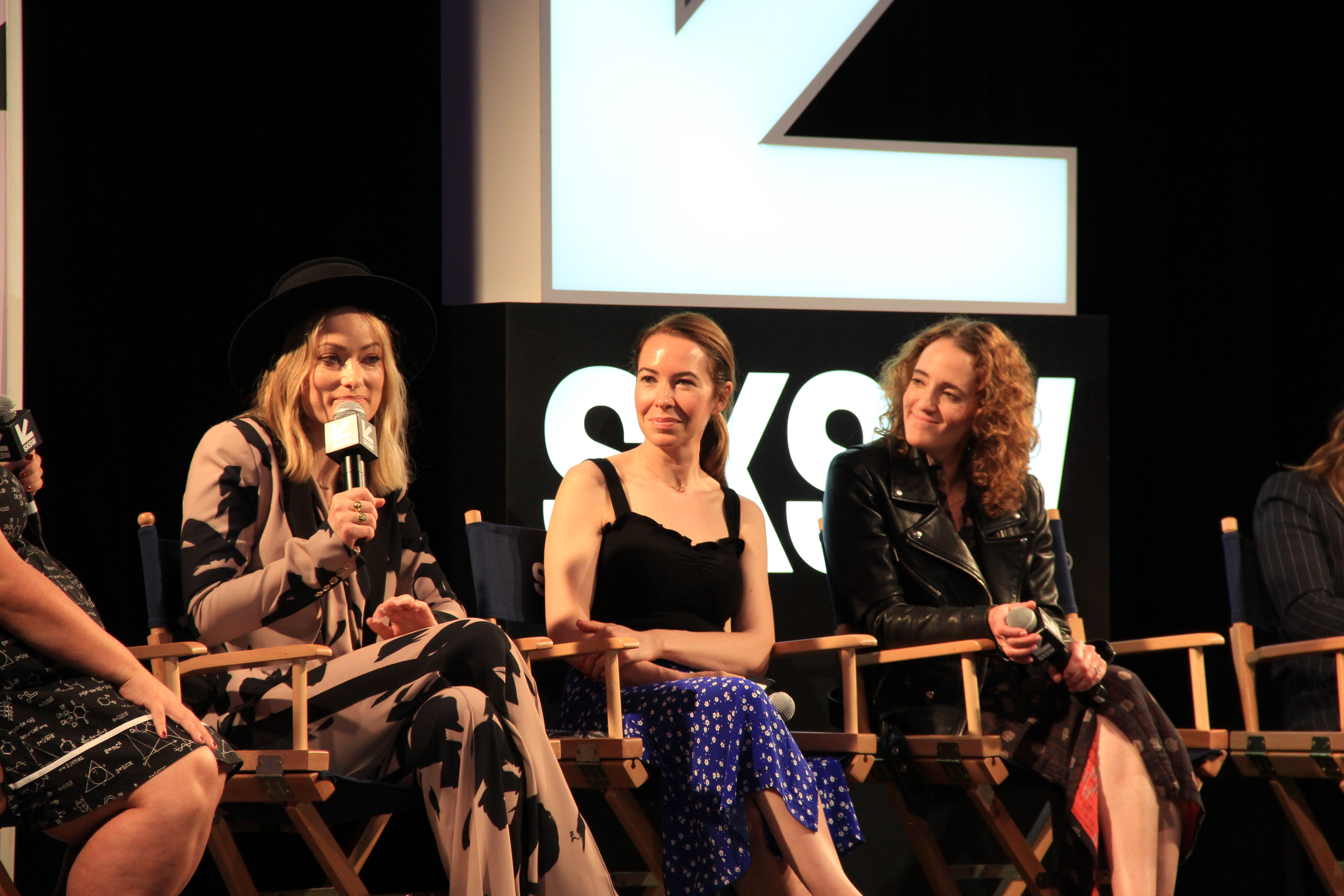 Booksmart Panel at SXSW